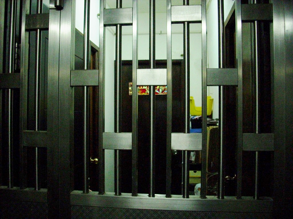 Entrance of the sub-division of flat units in Hong Kong